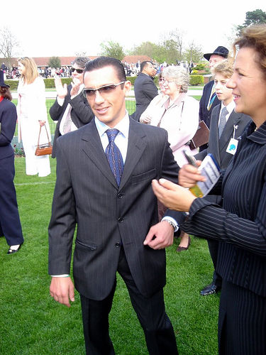 Frankie Dettori in the Parade Ring at Newmarket for the 2000 Guineas 2005. This picture was taken by user Indomitable.